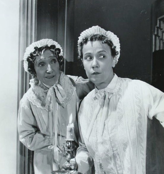 Carrie Daumery (as Miss Thomas in french version Caravane) & Louise Fazenda (as Miss Opitz in english version Caravan) - publicity still (cropped)